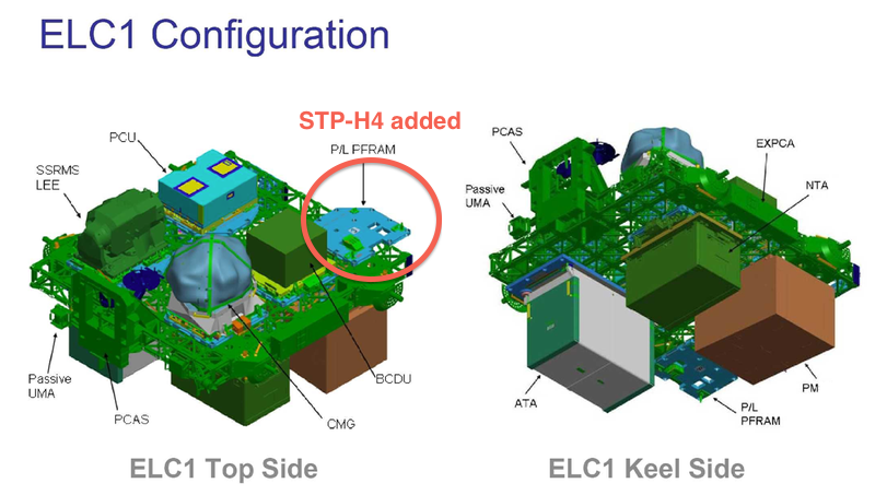 ELC-1 layout